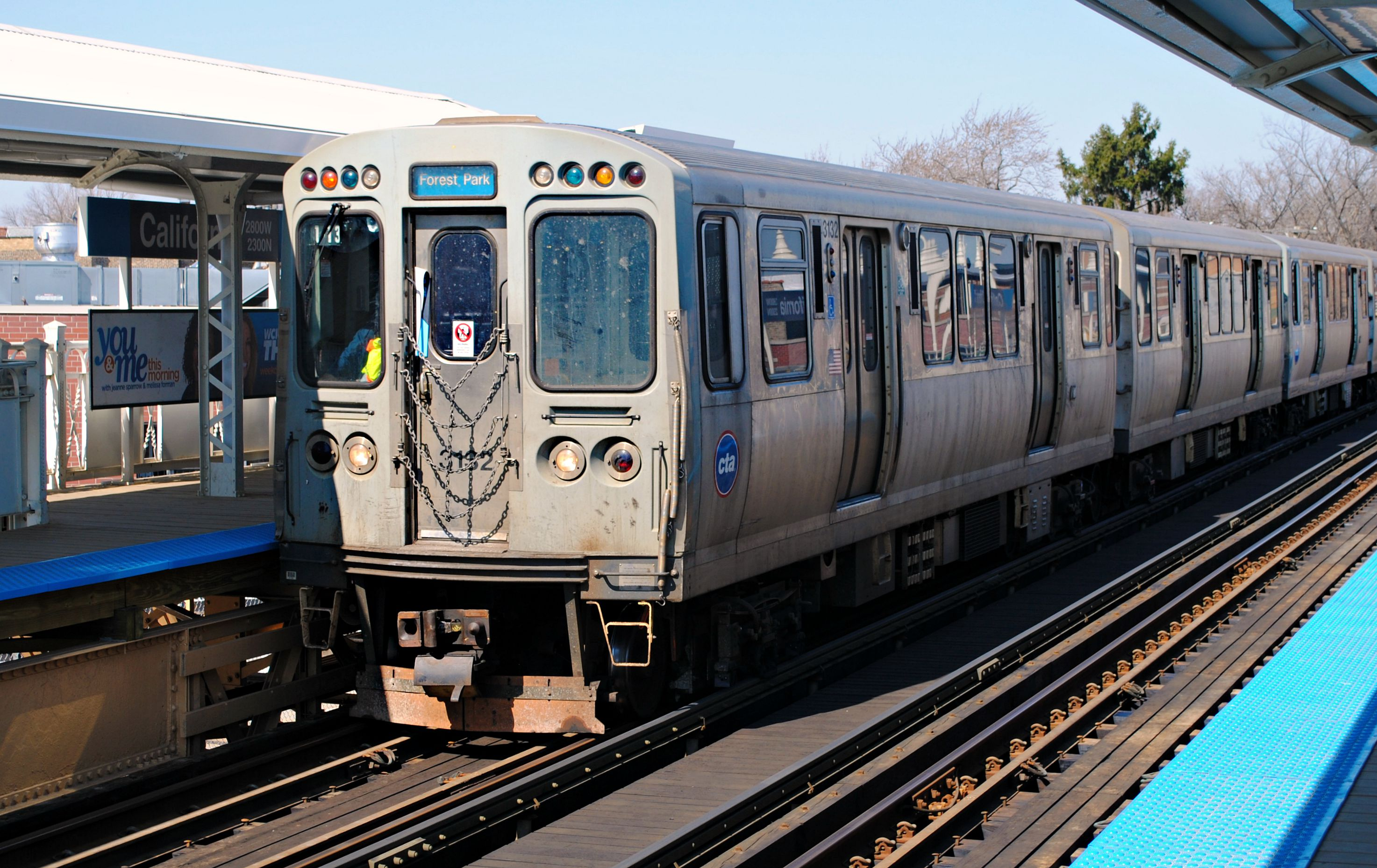 Chicago